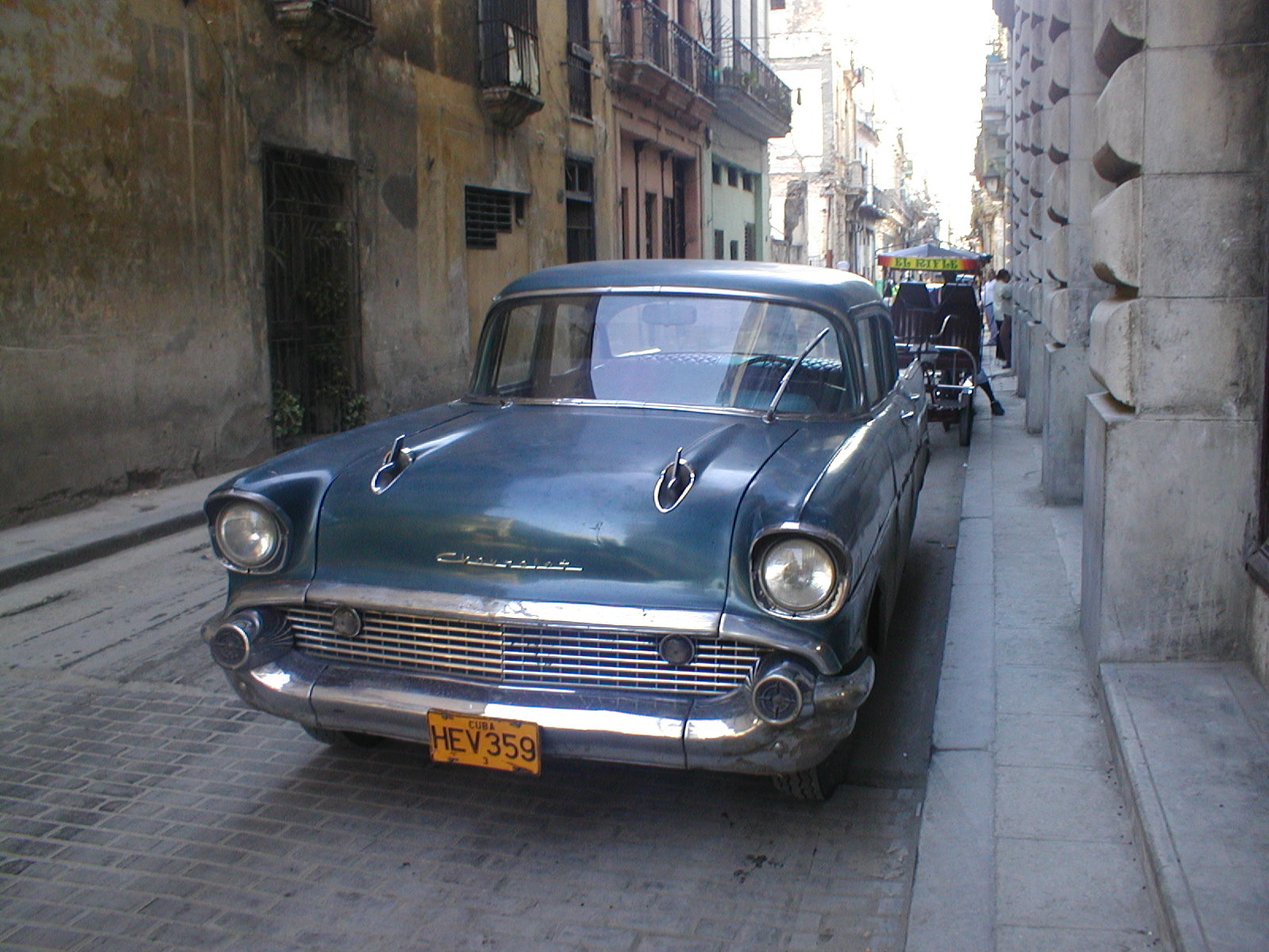 1957 Chevrolet One-Fifty Series 1500, Model 1503 4-door sedan, nicely kept in Havana, Cuba Autor: Beatriz Busaniche aka MotherForker Fecha: Febrero de 2006.